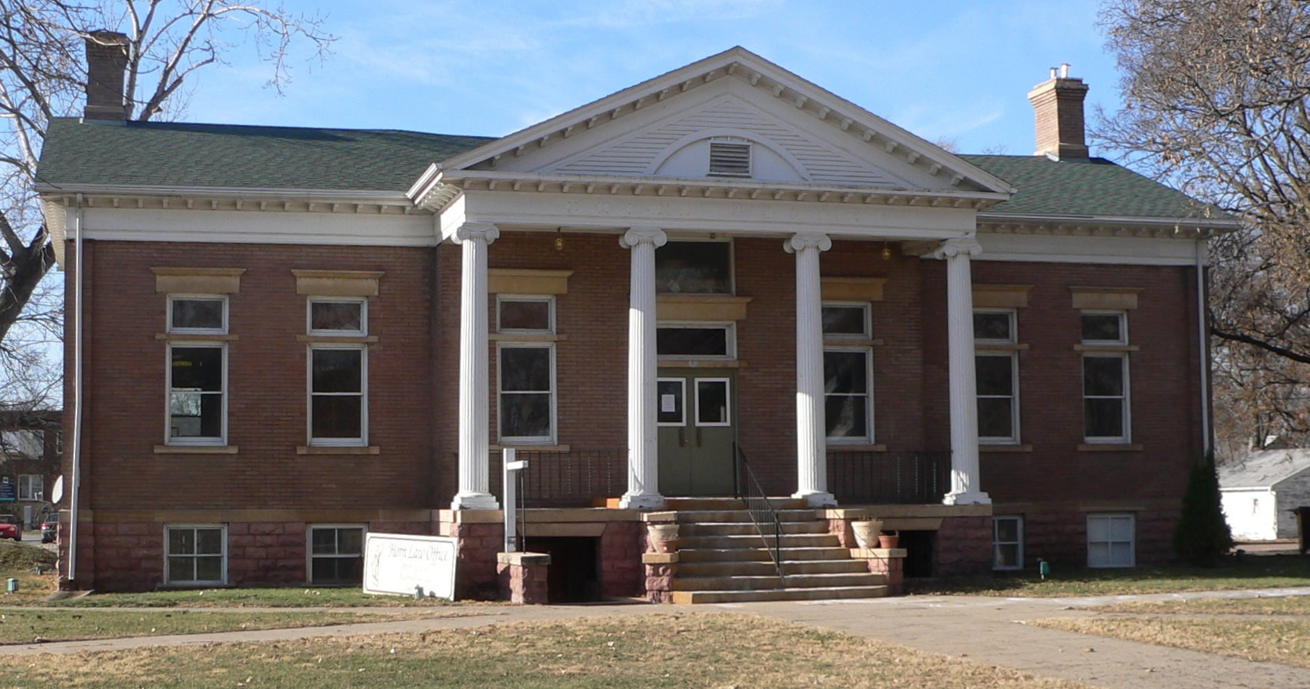 Yankton Carnegie Library, located at northwest corner of 4th and Capitol Streets in Yankton, South Dakota; seen from the east. The Classical Revival building was constructed in 1902. It is listed in the National Register of Historic Places.